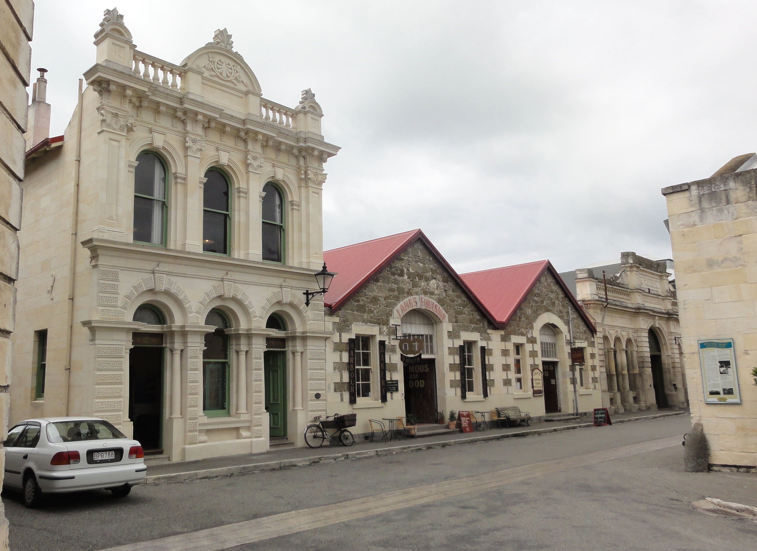 Harbour Street No. 2- 6, Oamaru, NZ Harbour Board Office, AH Maude's Stores, Meeks Grain Store (left to right)